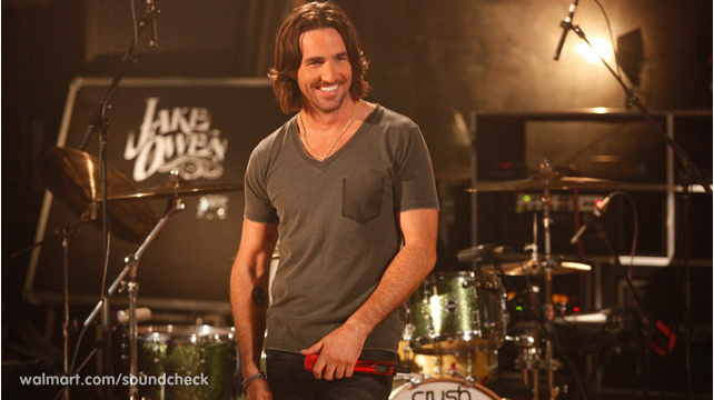 Jake Owen at Walmart Soundcheck